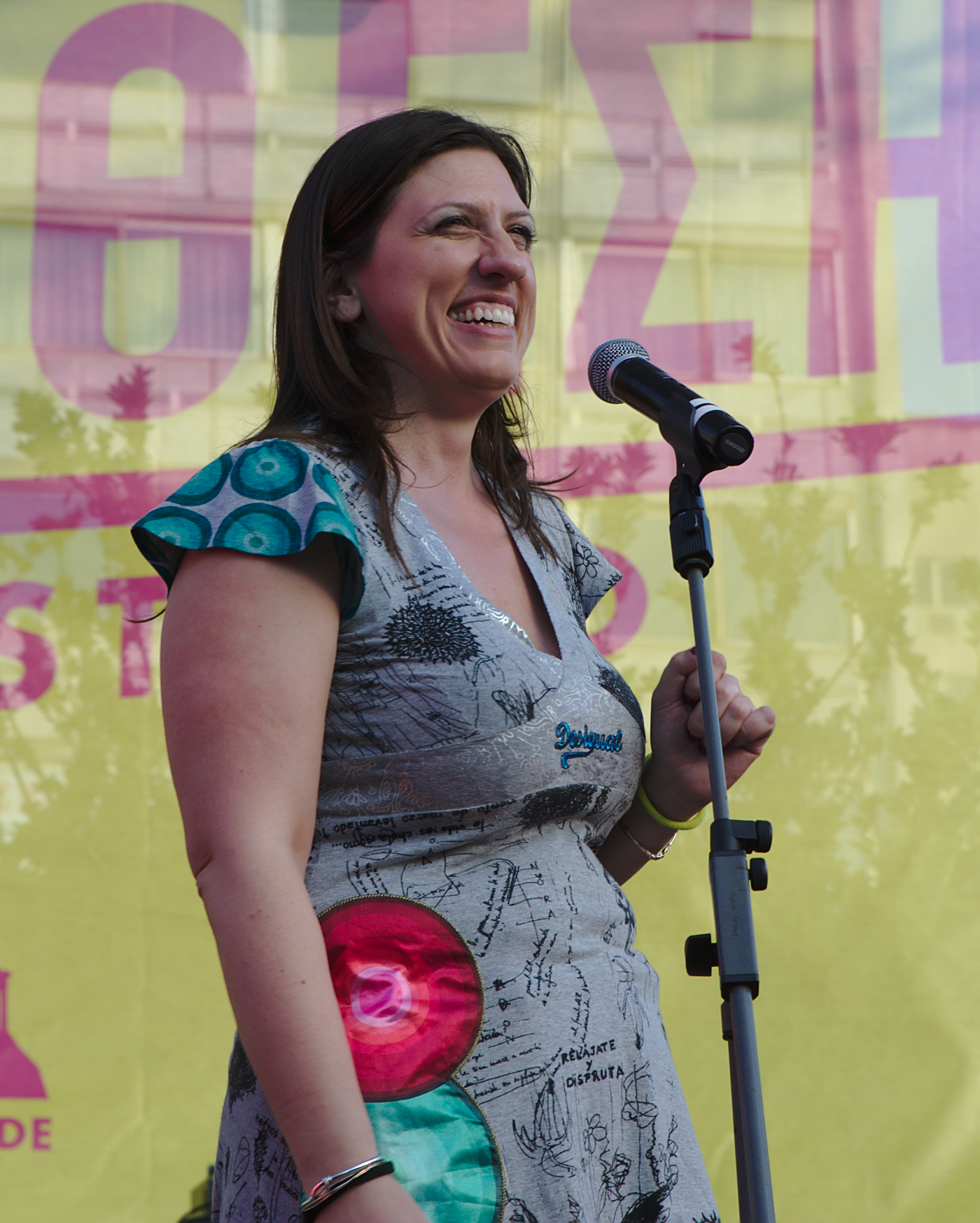 Zoi Konstantopoulou speaks to the crowd at Athens Pride in 2015